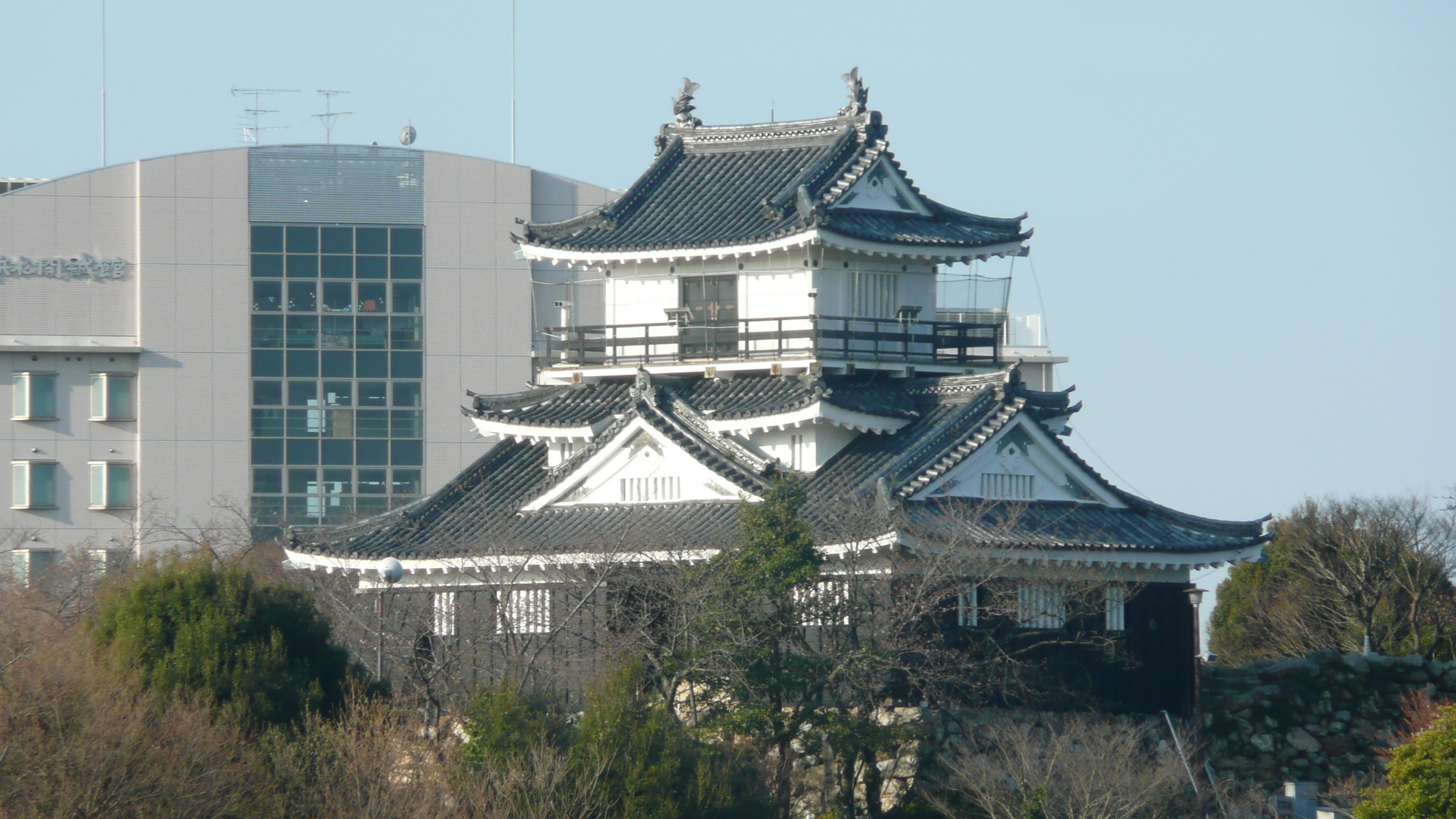 Castle of Hamamatsu, Japan